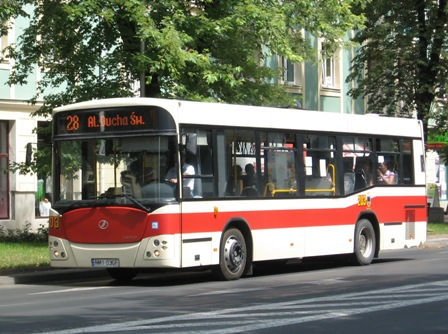 Jelcz M101I Salus bus (#203) in Mielec, Poland. Built 2004, MKS Mielec operator.